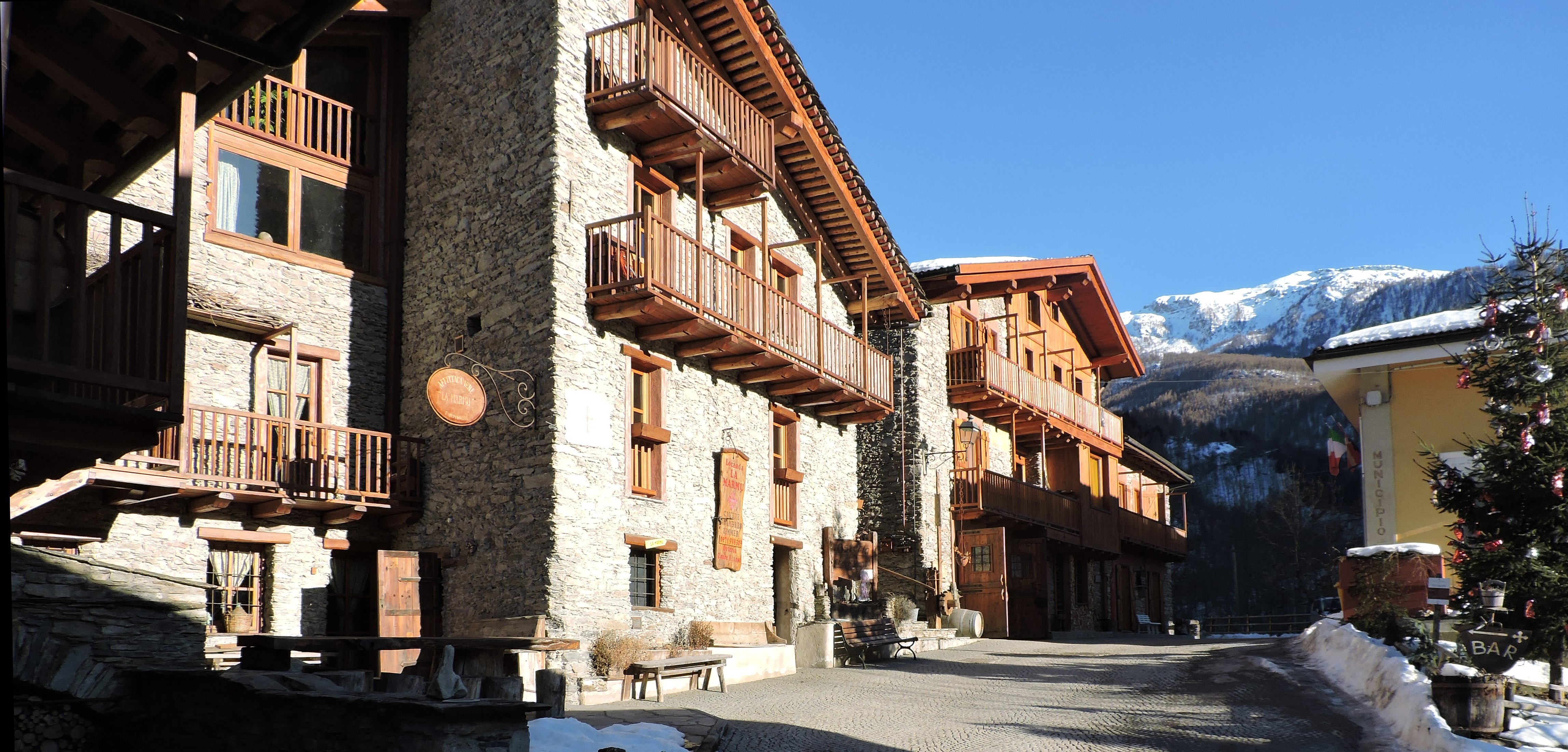 Marmora (Italy, Piedmont): panorama of the central village